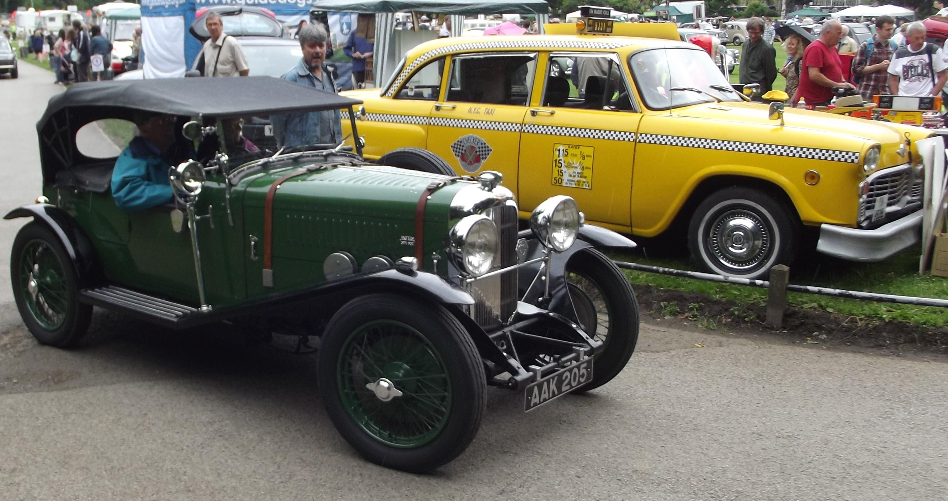 Lagonda Rapier 1935(DVLA) manufactured 1935, 1104ccHebden Bridge Classic Car Show 2013 Thomas's Pics Sunday 4th of August 2013